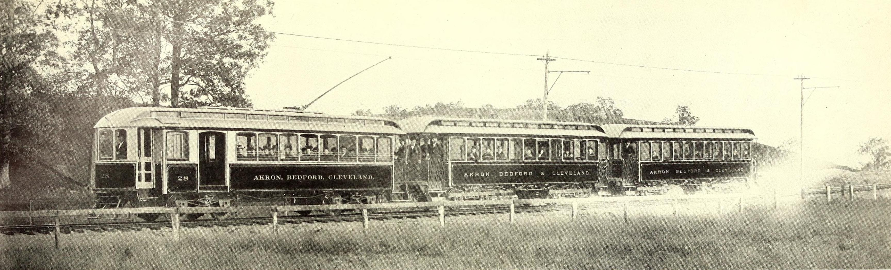 Title: Electric railway journal Year: 1908 (1900s) Authors: Subjects: Electric railroads Publisher: (New York) McGraw Hill Pub. Co Text Appearing Before Image: Los Angeles Railway—Interior of Repair Shop Los Angeles Railway—Interior of Car House Plate XLVI Text Appearing After Image: Plate XLVII